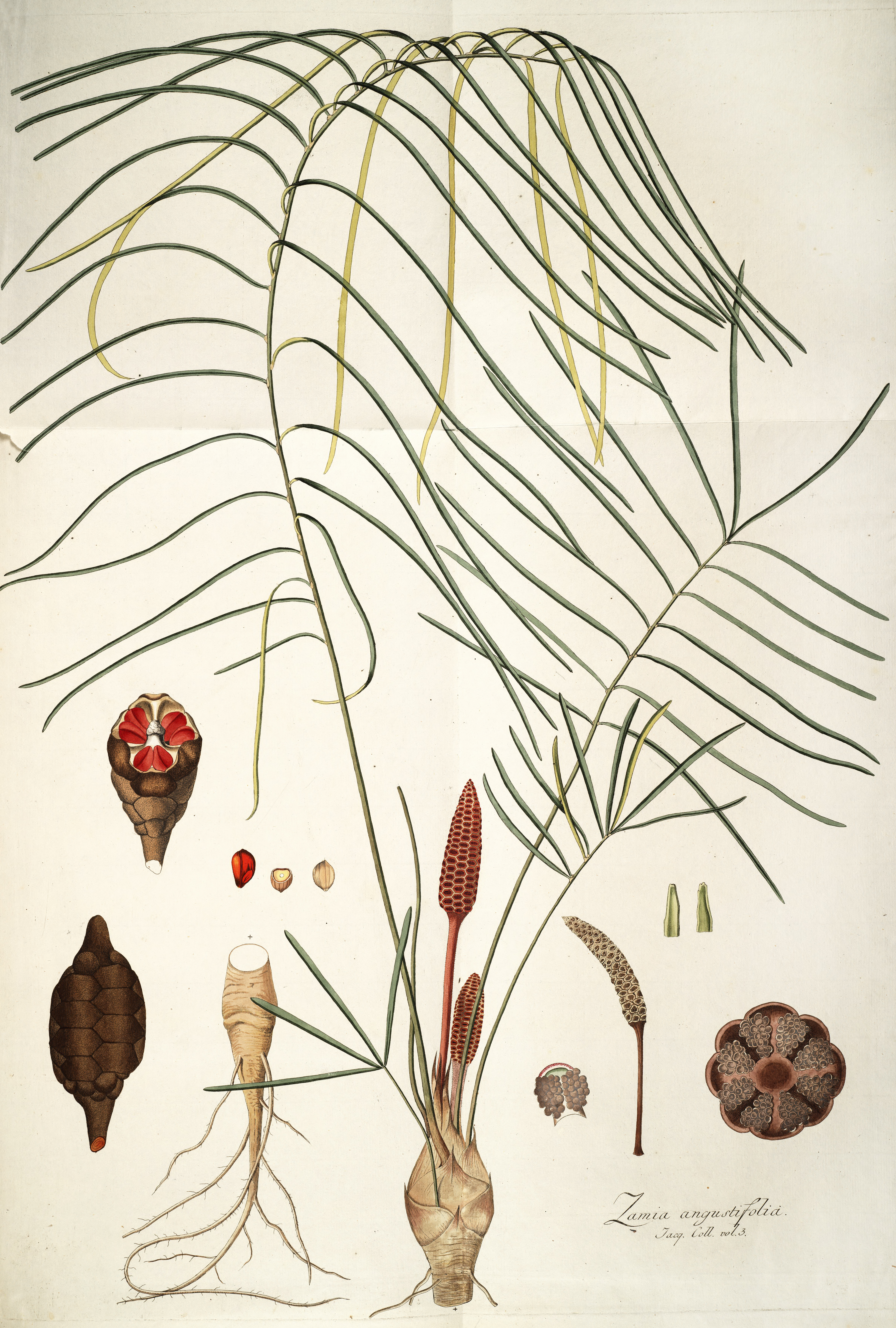 Illustration of Zamia angustifolia